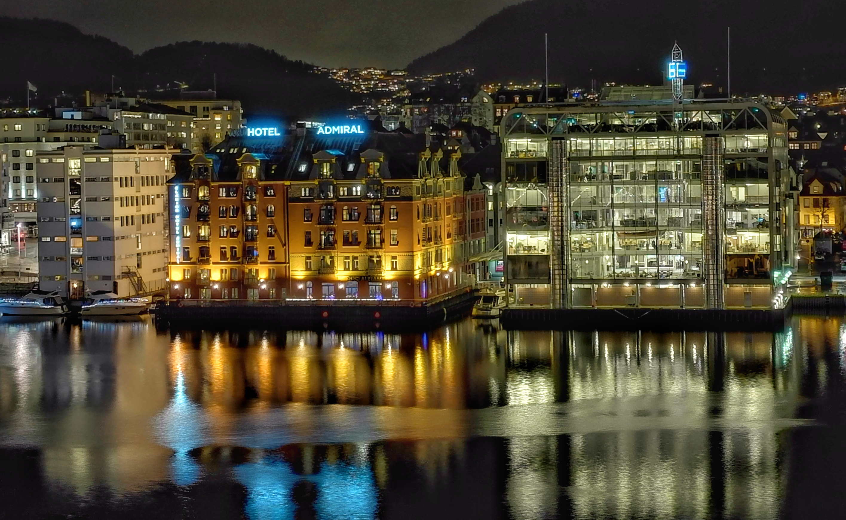 Grieg shipping, Hotel Admiral, Blauwgården, Bergen, Norway.